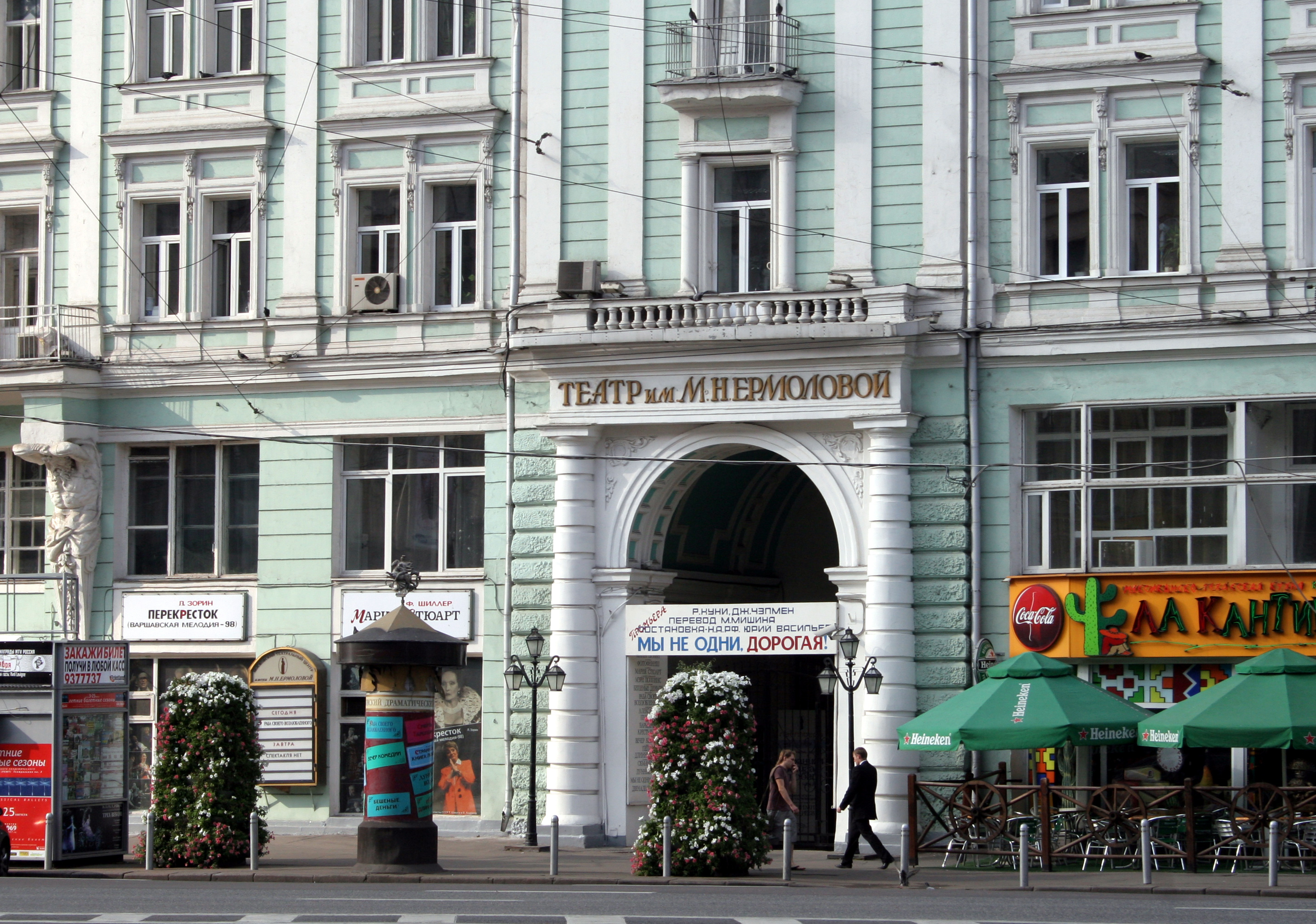 Moscow Drama Theater Ermolovoy